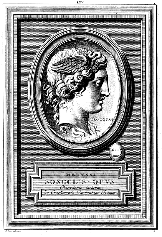 Sophocles' Medusa, page 89 of Gemmae antiquae caelatae, published 1724 by Baron Philip von Stosch and Bernard Picart